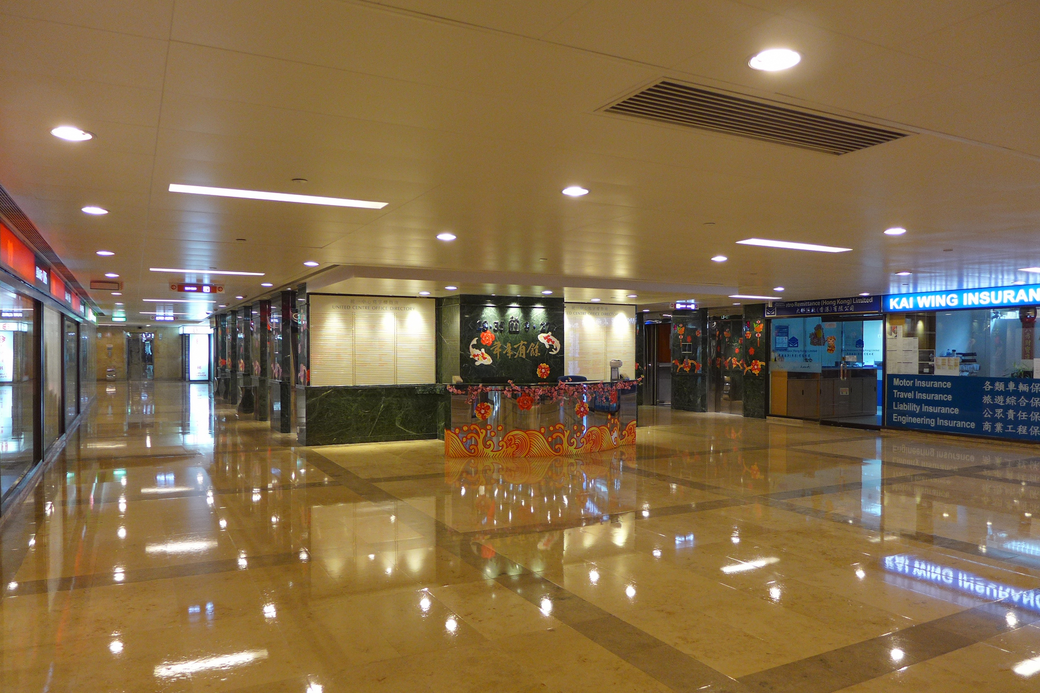 United Centre